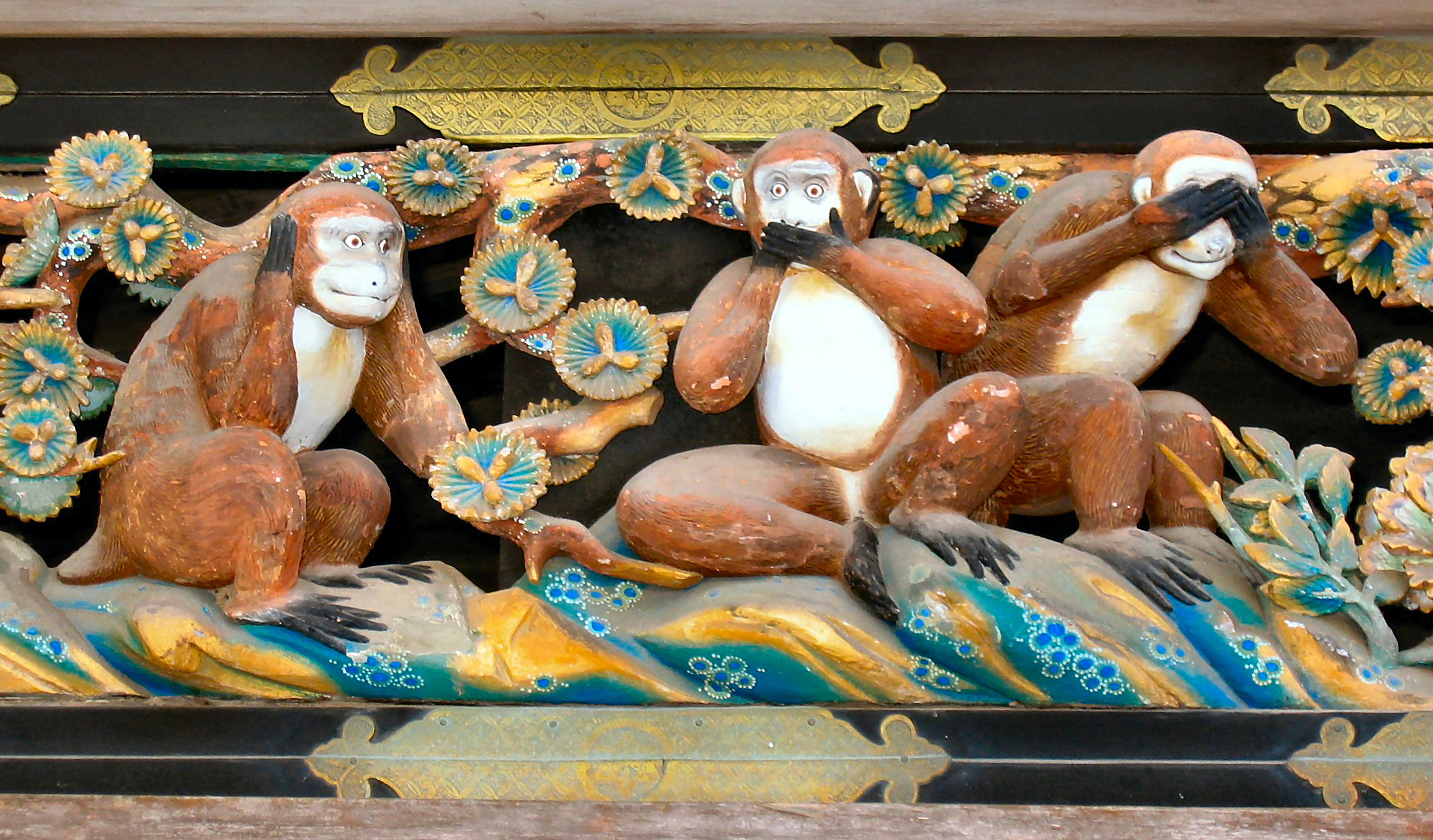 The Three Wise Monkeys, carving on the stable of Tosho-gu Shrine, Nikko, Japan